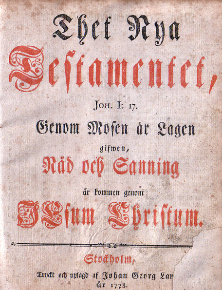 This a picture of the New Testament of the Karl XII Bible printed in 1778, which belongs to me.